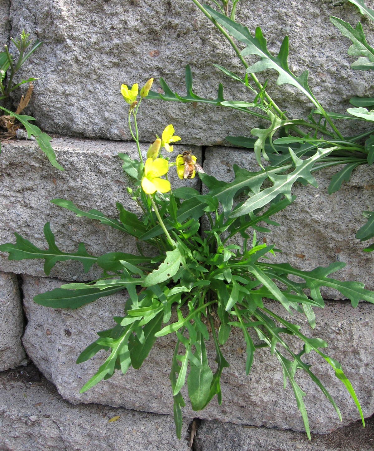 Perennial wallrocket (Diplotaxis tenuifolia) in flower with honeybee (Apis mellifera?) collecting pollen. Cape Cod, Massachusetts, US. For reference, wall block height is 4 inches (10 cm).